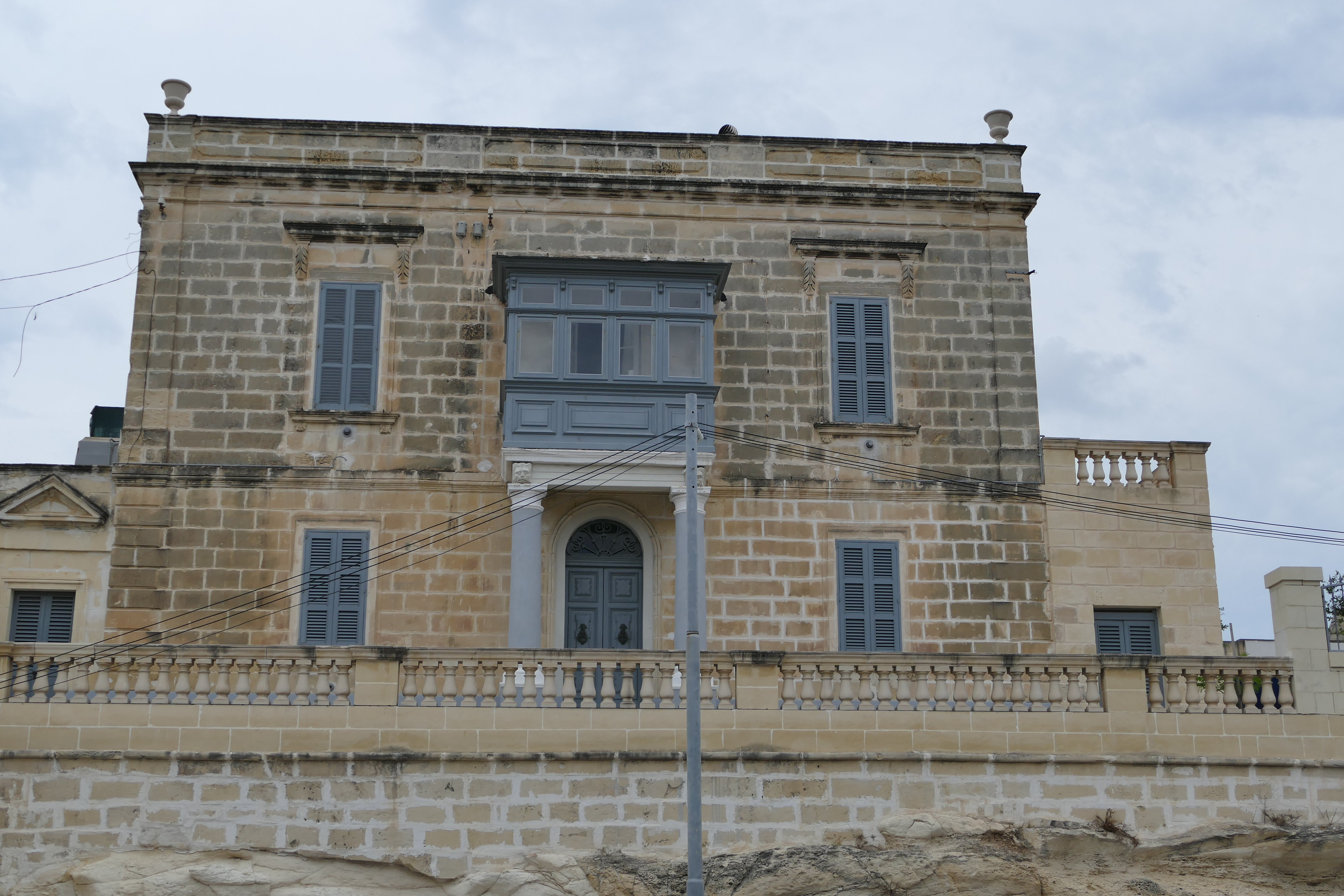 Villa Violette This media is about Maltese cultural property with inventory number 01178.